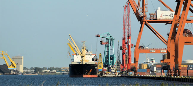 Banner of the public website